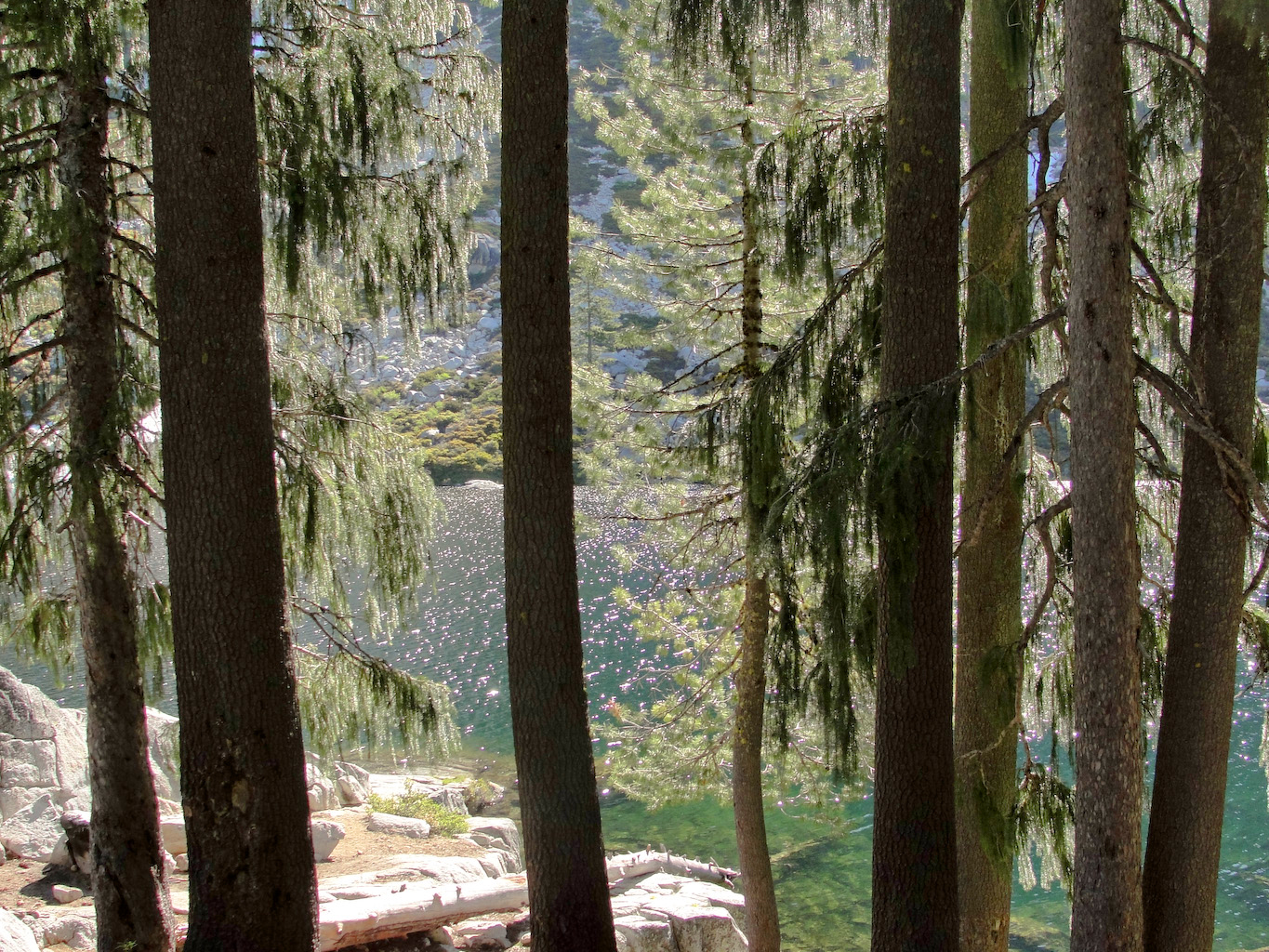 Lower Canyon Creek Lake with Picea breweriana (drooping foliage) in foreground. In the Trinity Alps Wilderness of the Trinity Alps—Klamath Mountains, northern California.